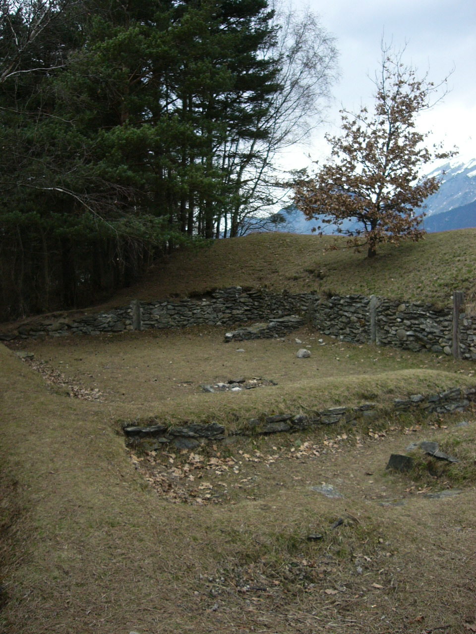 This pictures shows the result of an archeological excavation which discovered a prehistorical (La-Tène) settlemnt in Vill, Austria